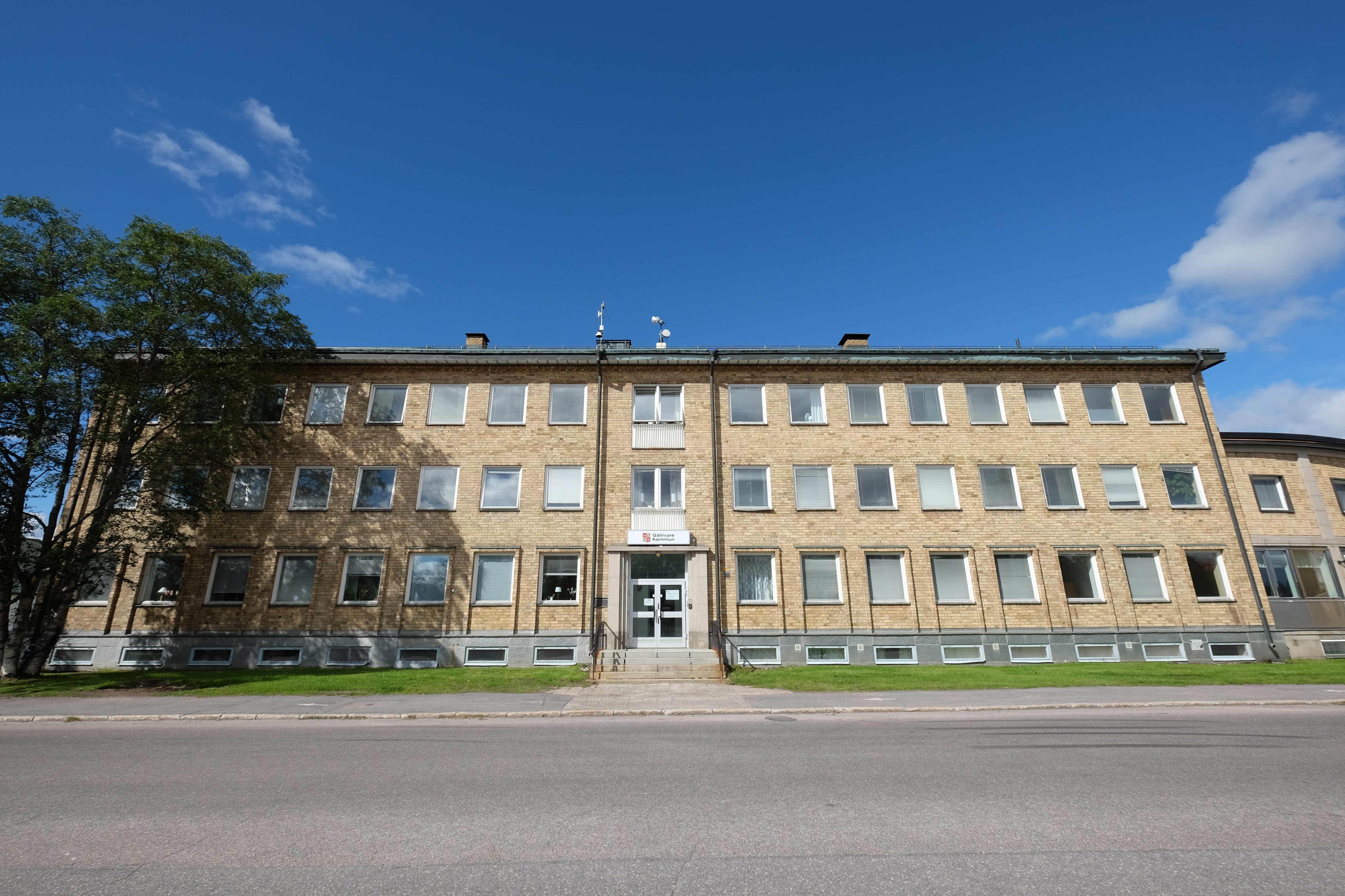 Gällivare municipality building 2016.